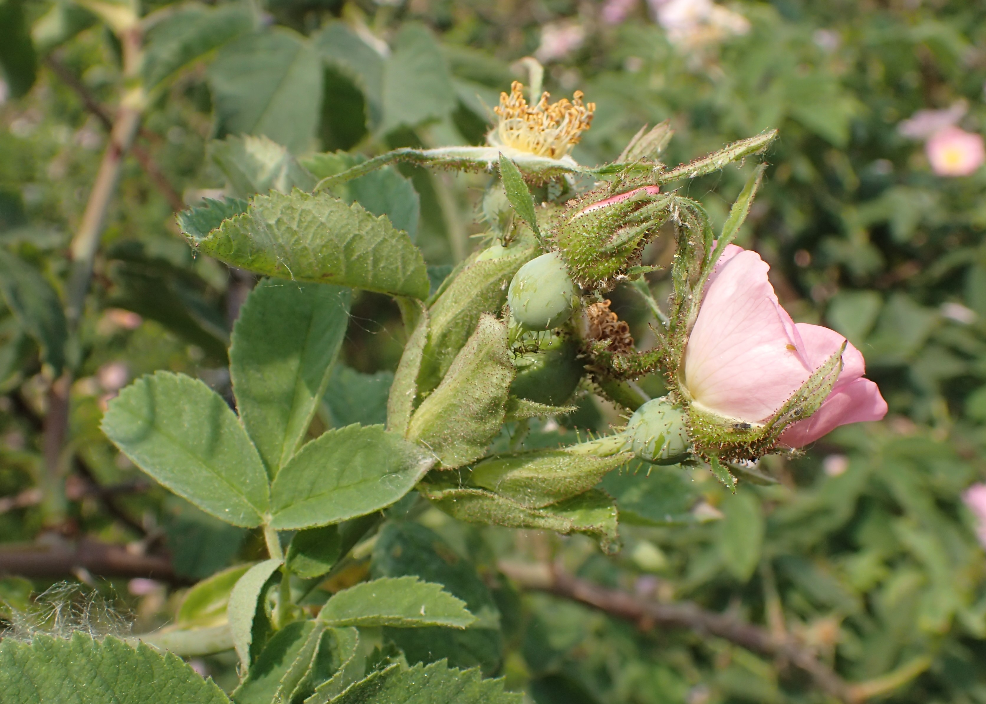 Rosa sherardii in the Rosarium Sangerhausen